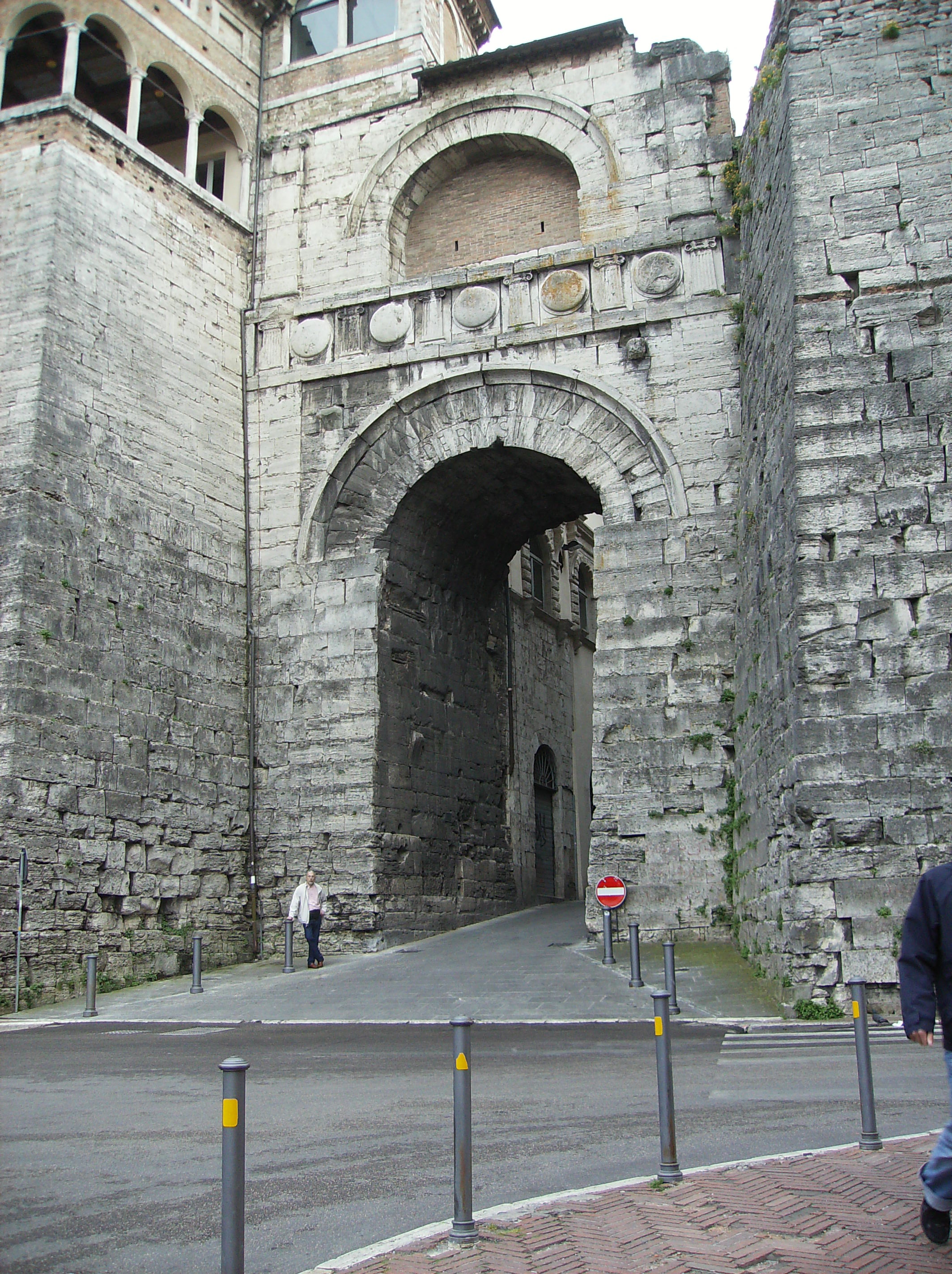 perugia-arco etrusco